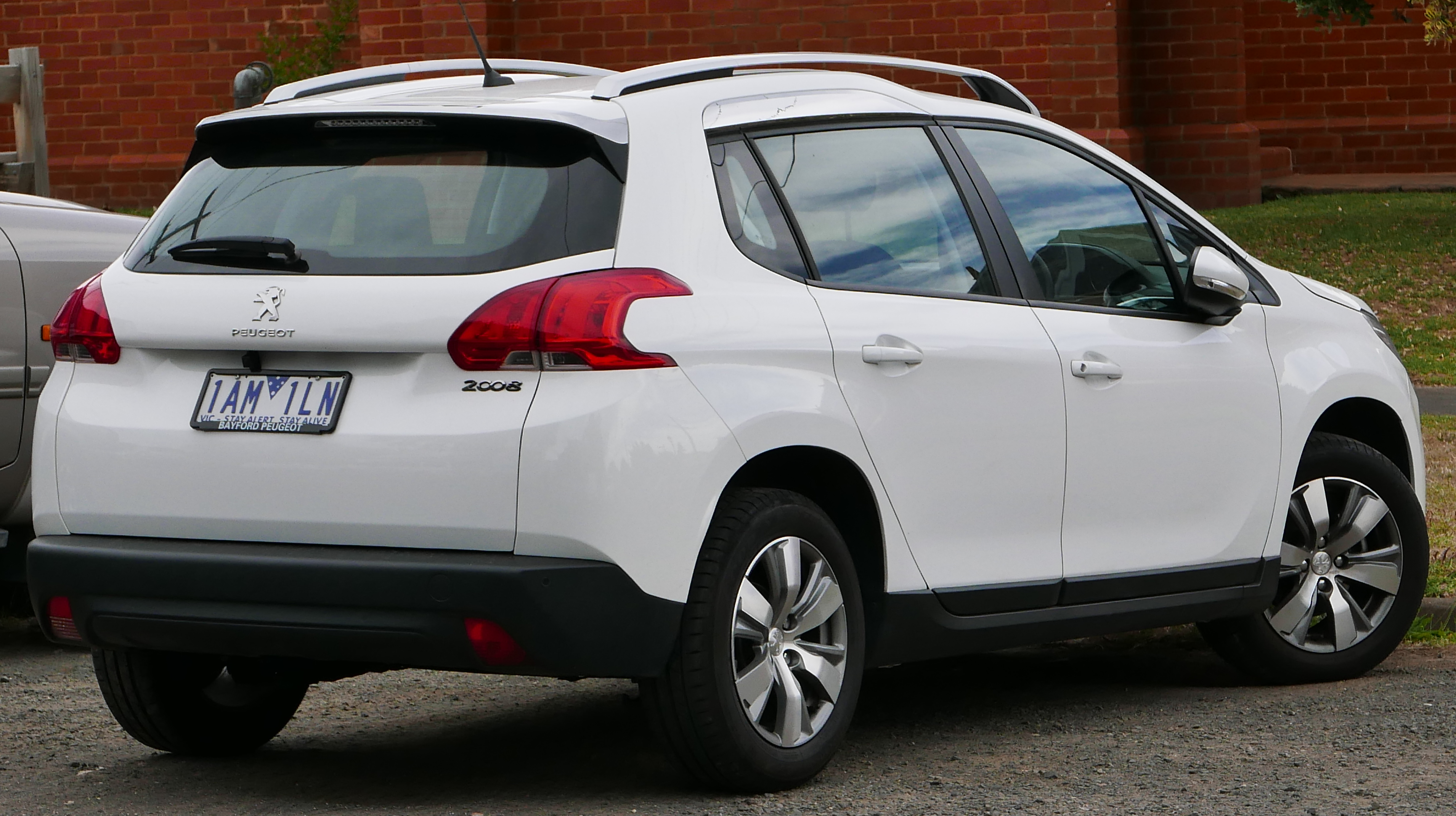 2013 Peugeot 2008 (A94) Active wagon. Photographed in Queenscliff, Victoria, Australia. Vehicle registration enquiry results Jurisdiction Victoria Registration 1AM1LN Chassis code VF3CU5FS9DY040347 Engine code 10FHCK1890718 Compliance date 2013-11 Year of manufacture 2013